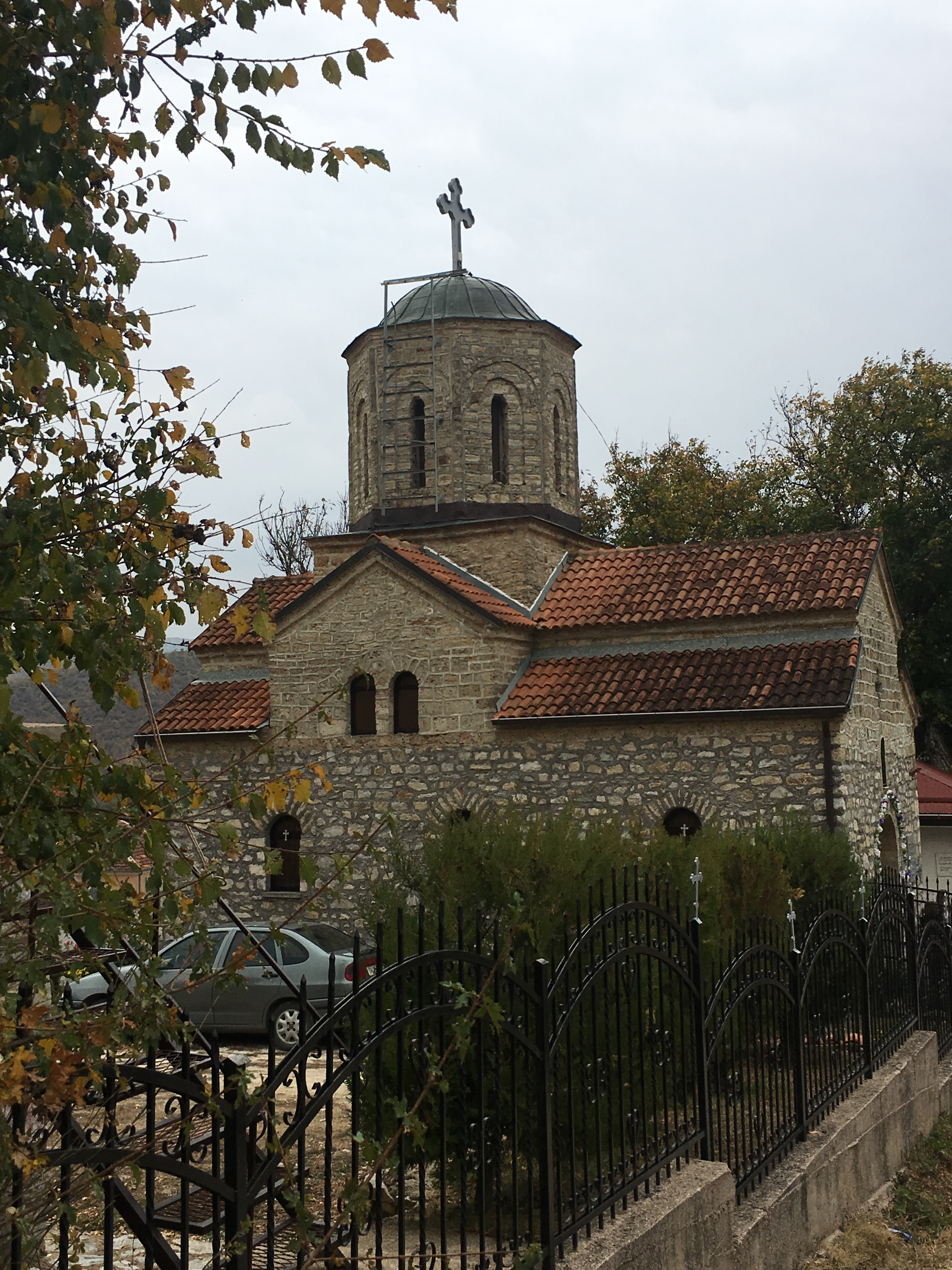 Wikiexpedition to Kopačka